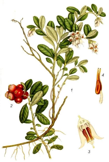 Cowberry (Vaccinium vitis-idaea L.)